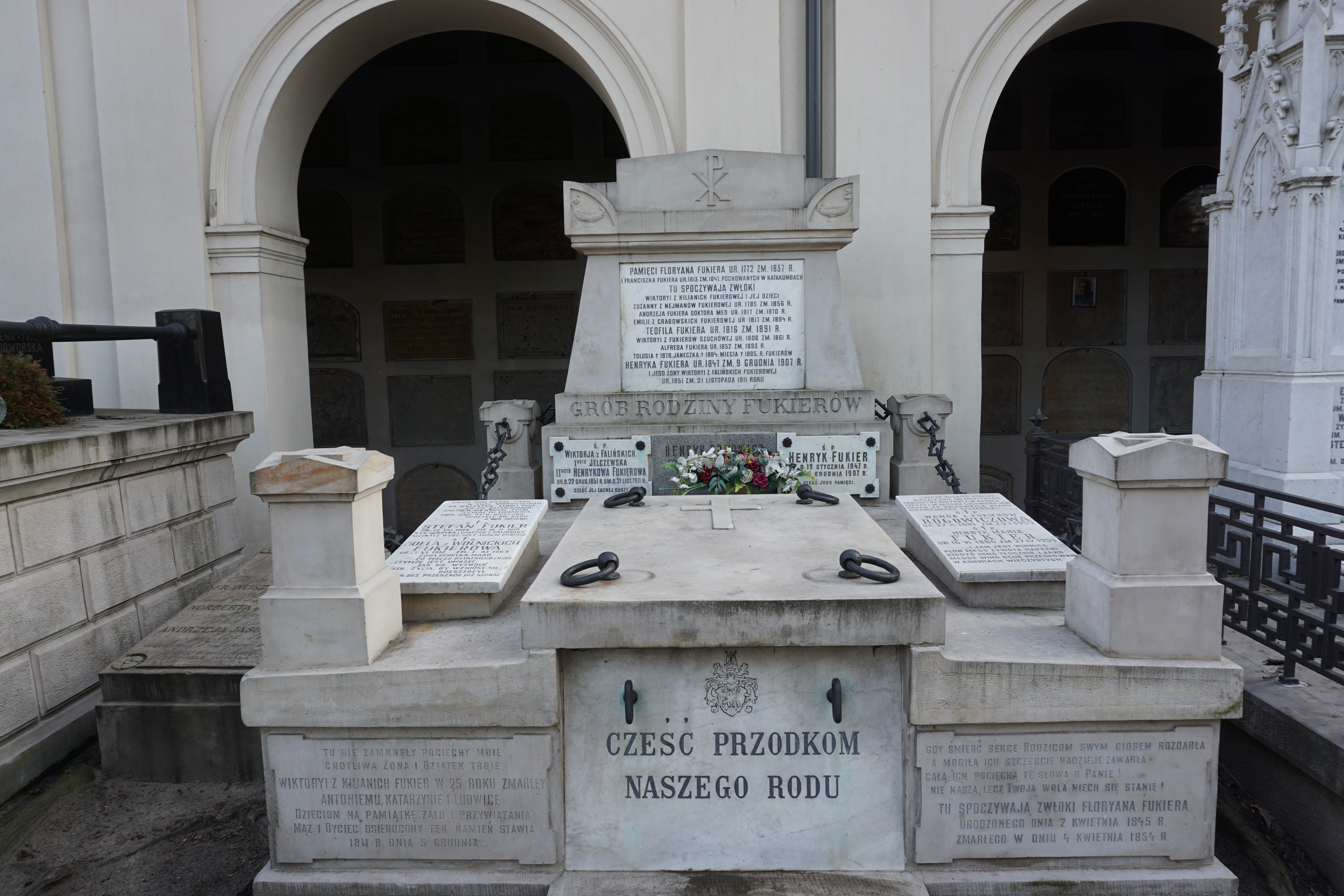 The grave of Henryk Maria Fukier at the Powązki Cemetery (section Under the catacombs, grave 76, 77)